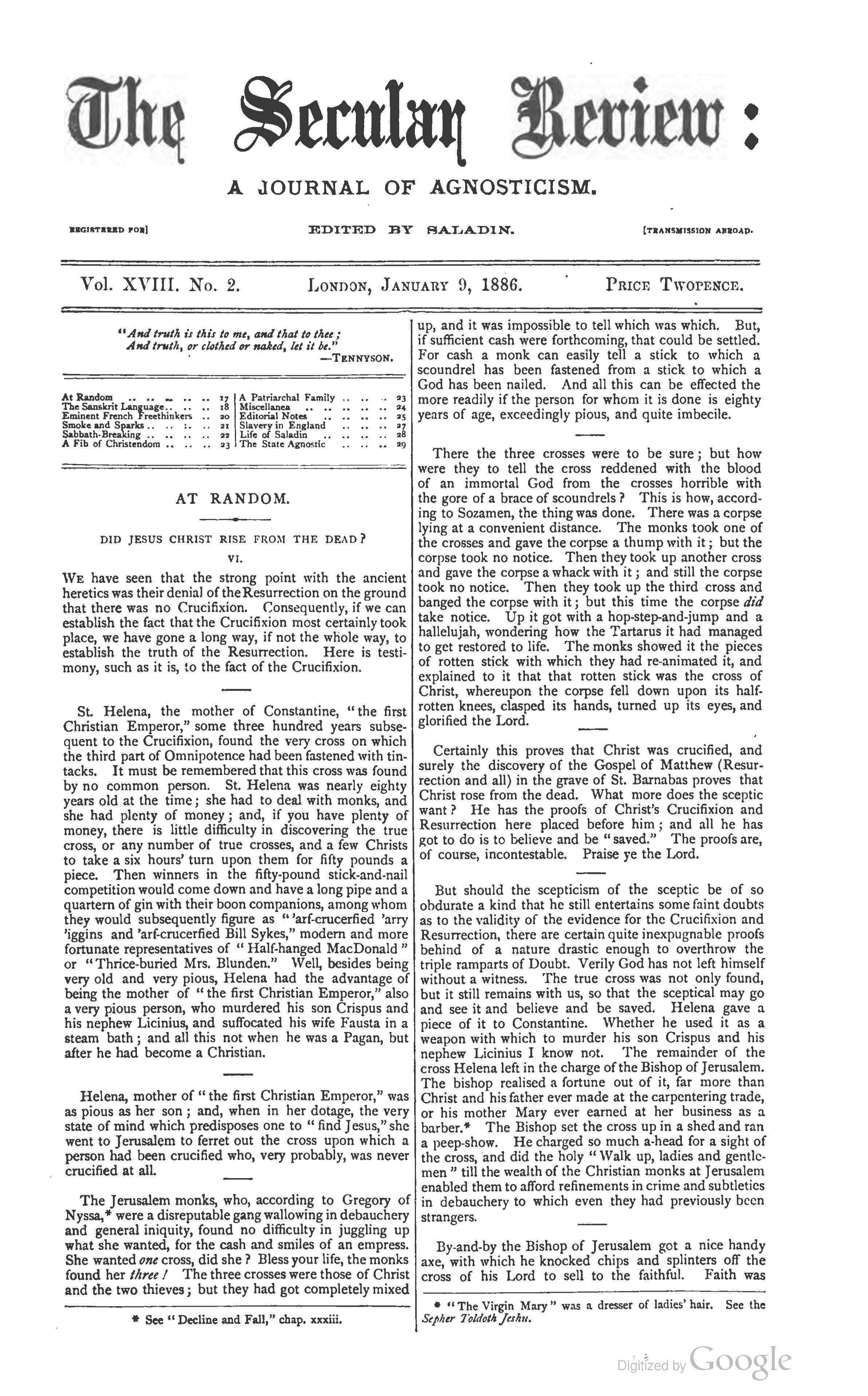 Cover image of the periodical Secular Review (9 January 1886 issue)